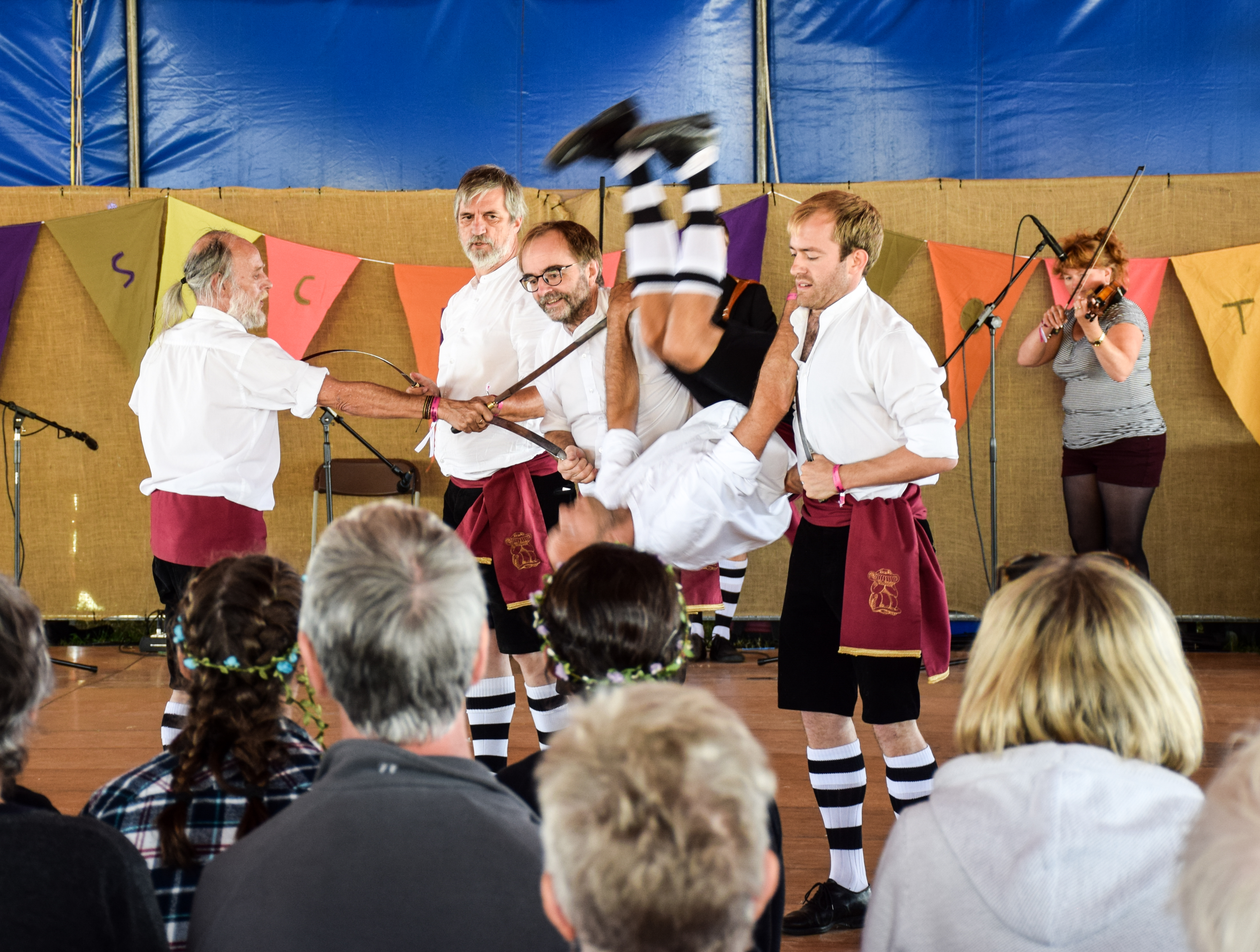 Stone Monkey rapper sword dance side, at Towersey Festival 2018.